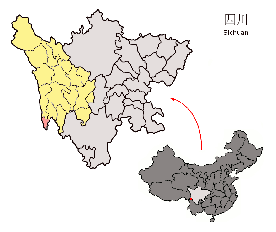 Location of Dêrong County (pink) and Garzê Prefecture (yellow) within Sichuan province of China Map drawn in september 2007 using various sources, mainly : Sichuan province administrative regions GIS data: 1:1M, County level, 1990 Sichuan Counties map from